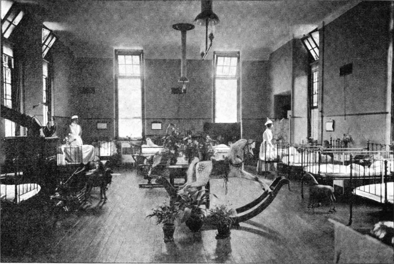 Children's ward c1908 at Louise Margaret Hospital